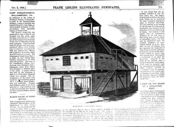 This blockhouse was part of the U.S. Army Fort Myers, in Florida, in use during the Third Seminole War, and again during the American Civil War.